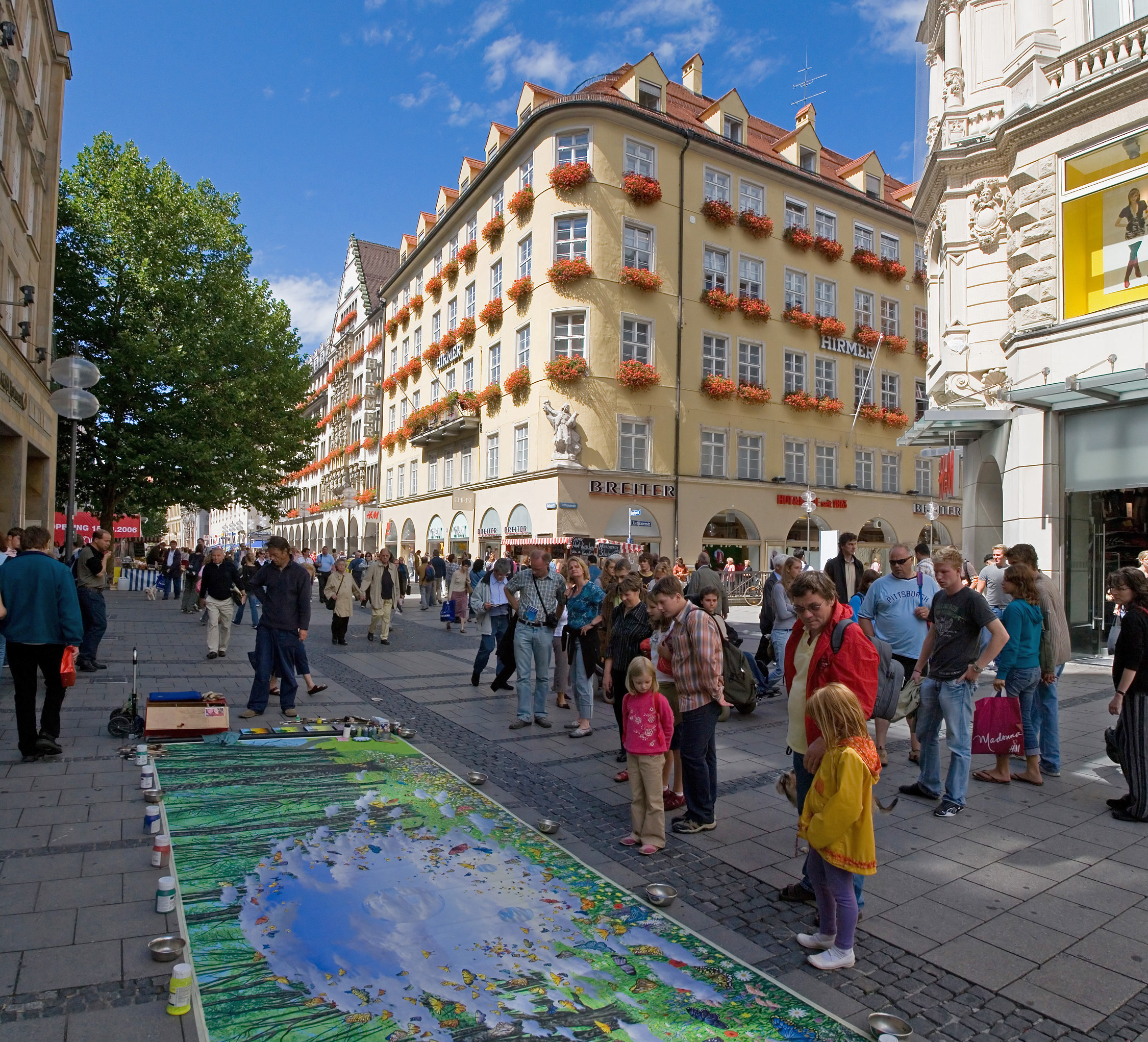 A three segment panorama of the street art in Kaufingerstraße near Marienplatz, in Munich.